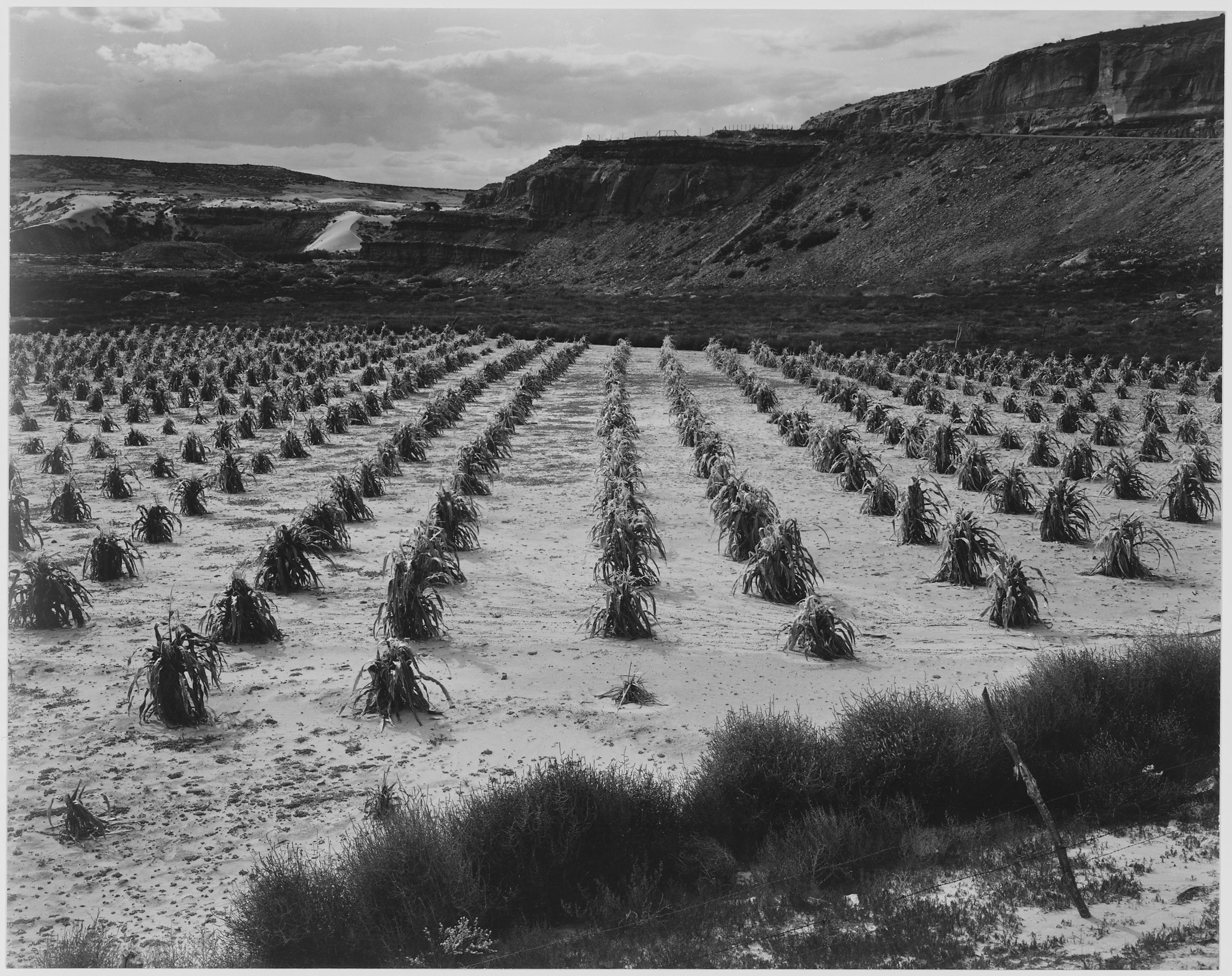 Looking across rows of corn, cliff in background, "Corn Field, Indian Farm near Tuba City, Arizona, in Rain, 1941."; From the series Ansel Adams Photographs of National Parks and Monuments, compiled 1941 - 1942, documenting the period ca. 1933 - 1942.